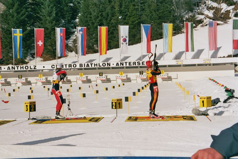 Sandrine Bailly, France, vs. Kati Wilhelm, Germany